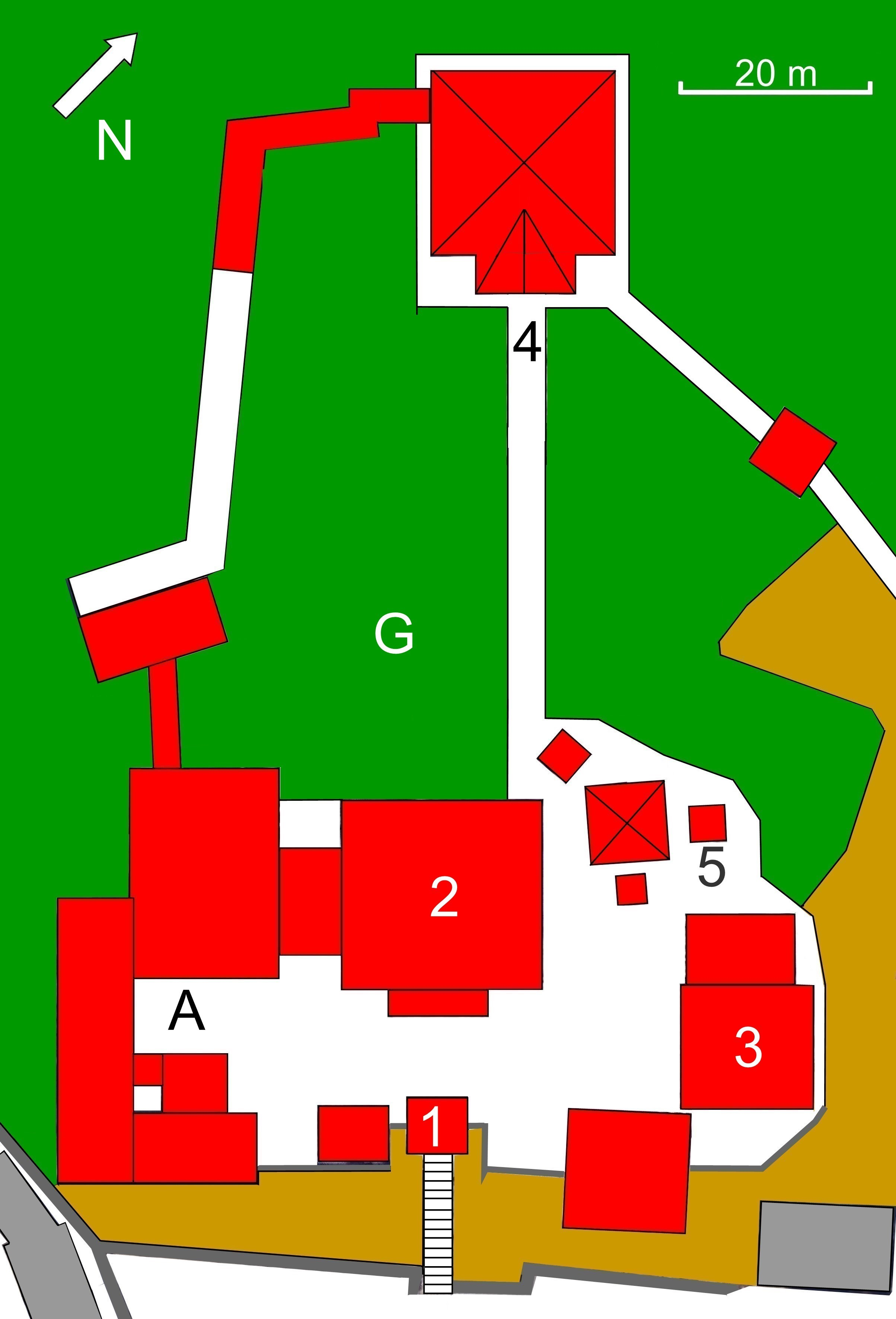 Layout of Yôkoku-ji at Nagaokakyō, Kyōto prefecture, Japan.